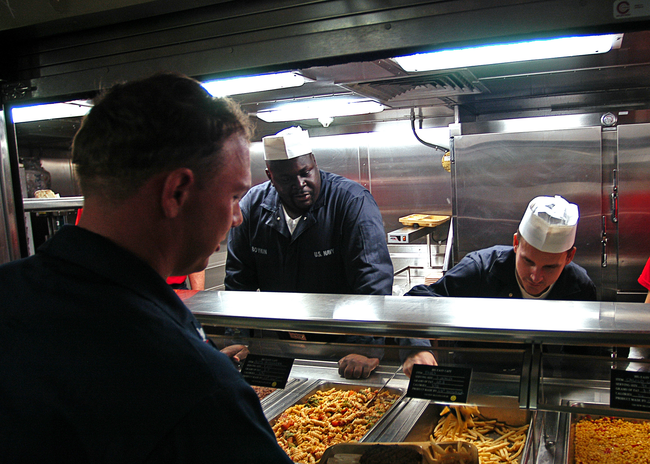 SAN DIEGO (Nov. 20, 2007) Professional skateboarder, Rob Dyrdek and his best friend and bodyguard, Christopher "Big Black" Boykin, from the reality TV show "Rob & Big," serve chow to Sailors aboard the amphibious transport dock ship USS New Orleans (LPD 18). "Rob and Big" toured the ship for an episode of their show. U.S. Navy photo by Mass Communication Specialist Seaman Patrick D. House (Released)